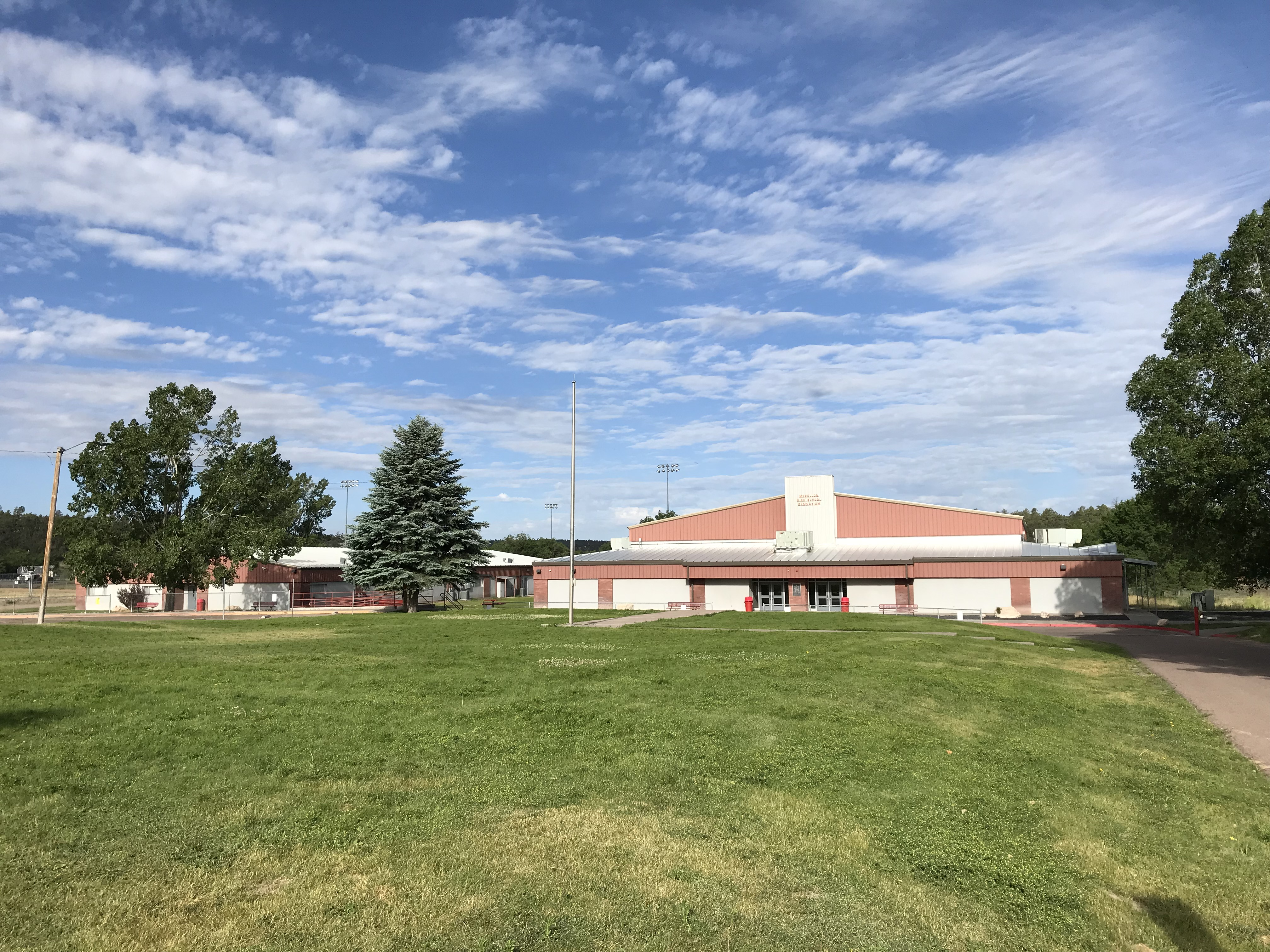 Mogollon High School as viewed from parking lot